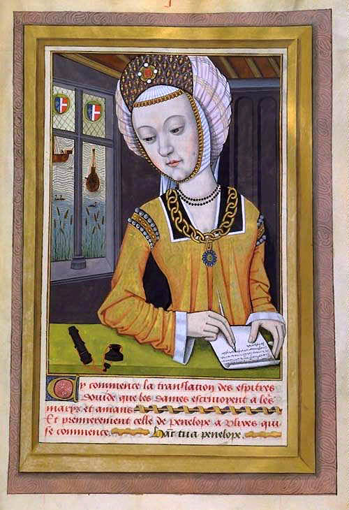 Second portrait of Hypsipylé, first wife of Jason, from Octavien de Saint-Gelais (b. 1468-d. 1502), translation of Ovid's Epistulae heroidum, Cognac, 1496-1498, Manuscripts Department, Bibliothèque Nationale de France, Western Section, Fr. 875, Parchment